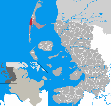 This map shows the area of the Stadt (town) Westerland in the Kreis (district) Nordfriesland, Schleswig-Holstein, Germany.